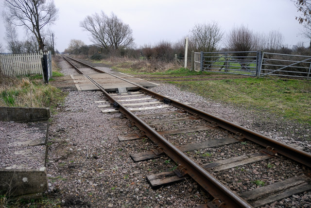 Nene Valley Railway - Castor